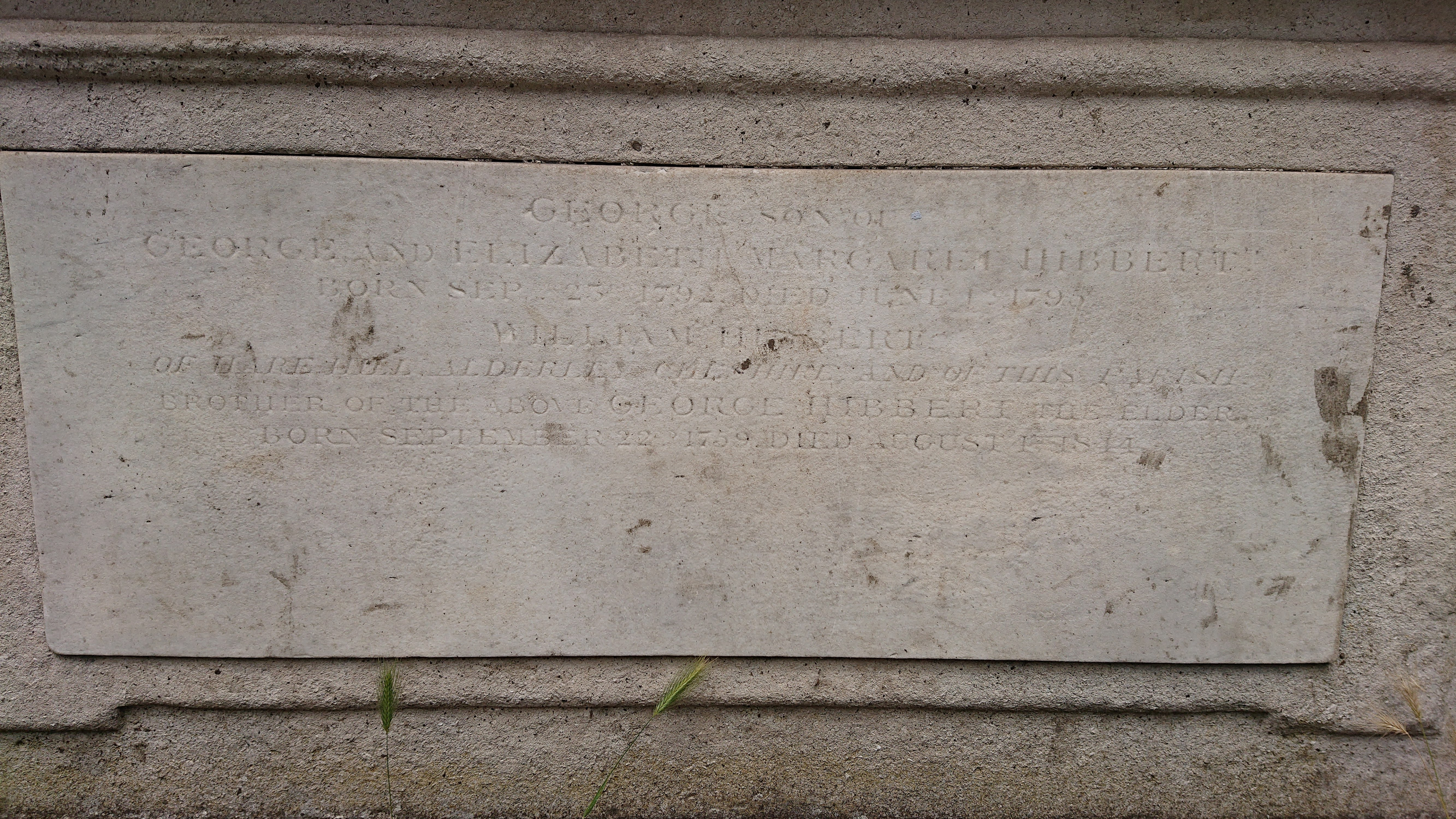 George, Son of Gerorge and Elizabeth Margaret Hibbert